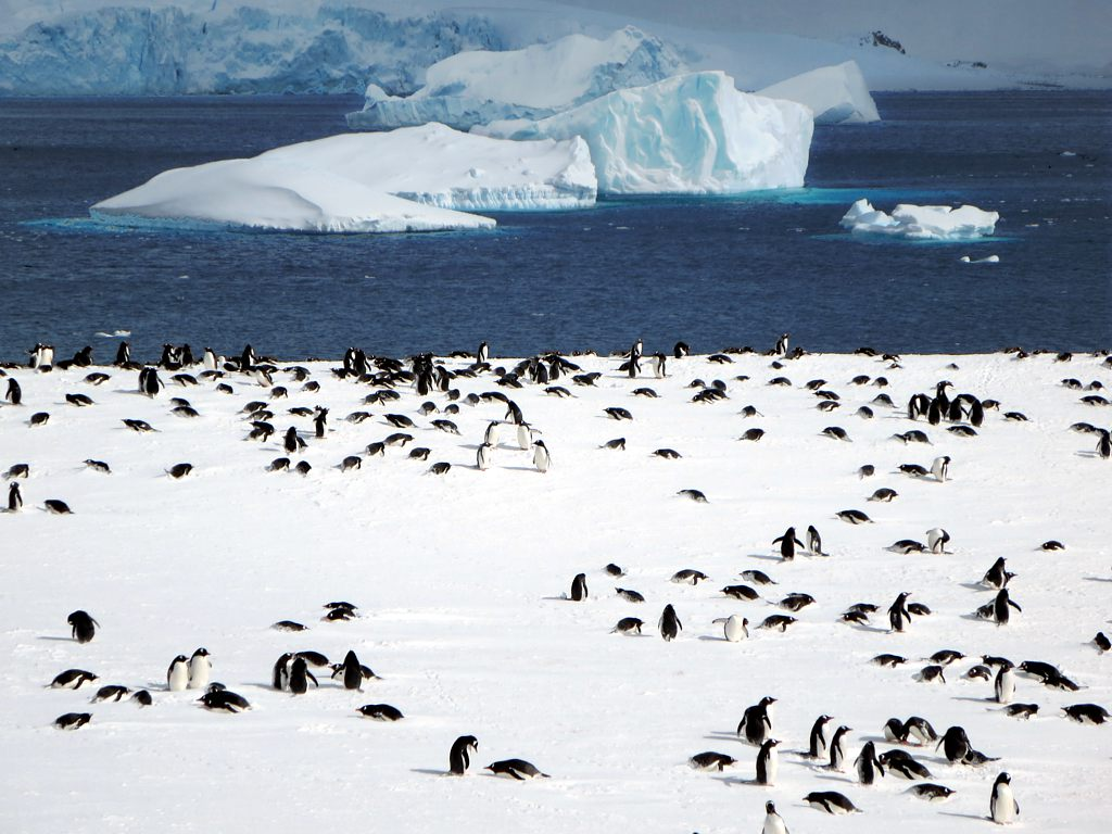 Cuverville Island, just off the coast of Antarctica, is home to a large breeding colony of gentoo penguins.